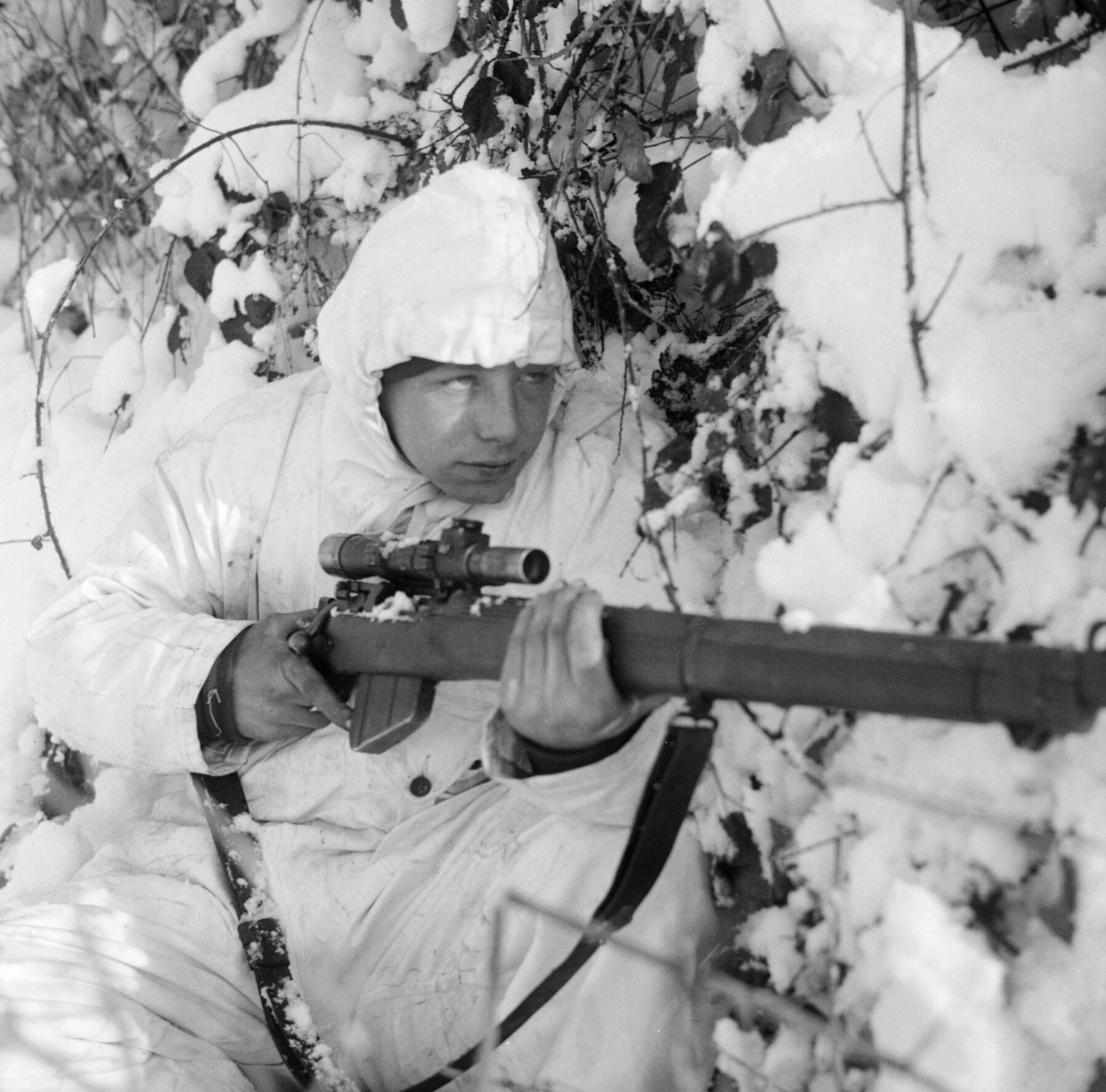 A 6th Airborne Division sniper on patrol in the Ardennes, wearing a snow camouflage suit, 14 January 1945. A 6th Airborne Division sniper on patrol in the Ardennes, wearing a snow camouflage suit, 14 January 1945.